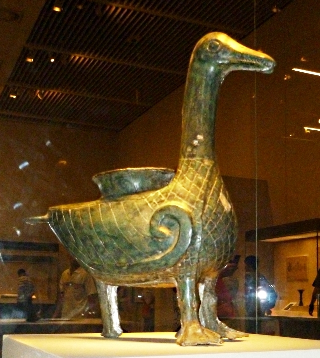 I took this photo on a visit to the National Museum in Beijing in 2011.